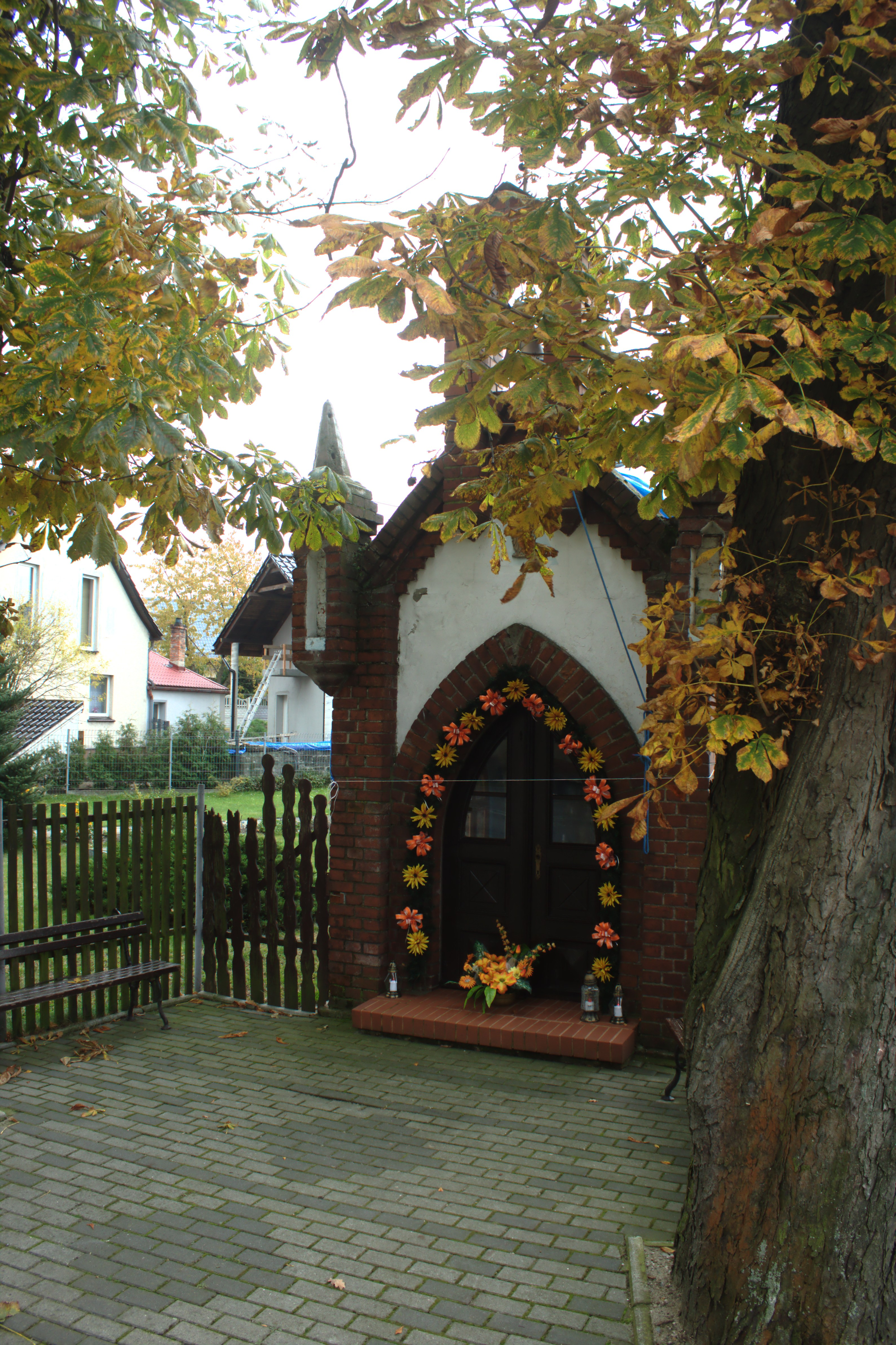 A chapel in the village of Szymocice, Silesian Voivodeship, PL